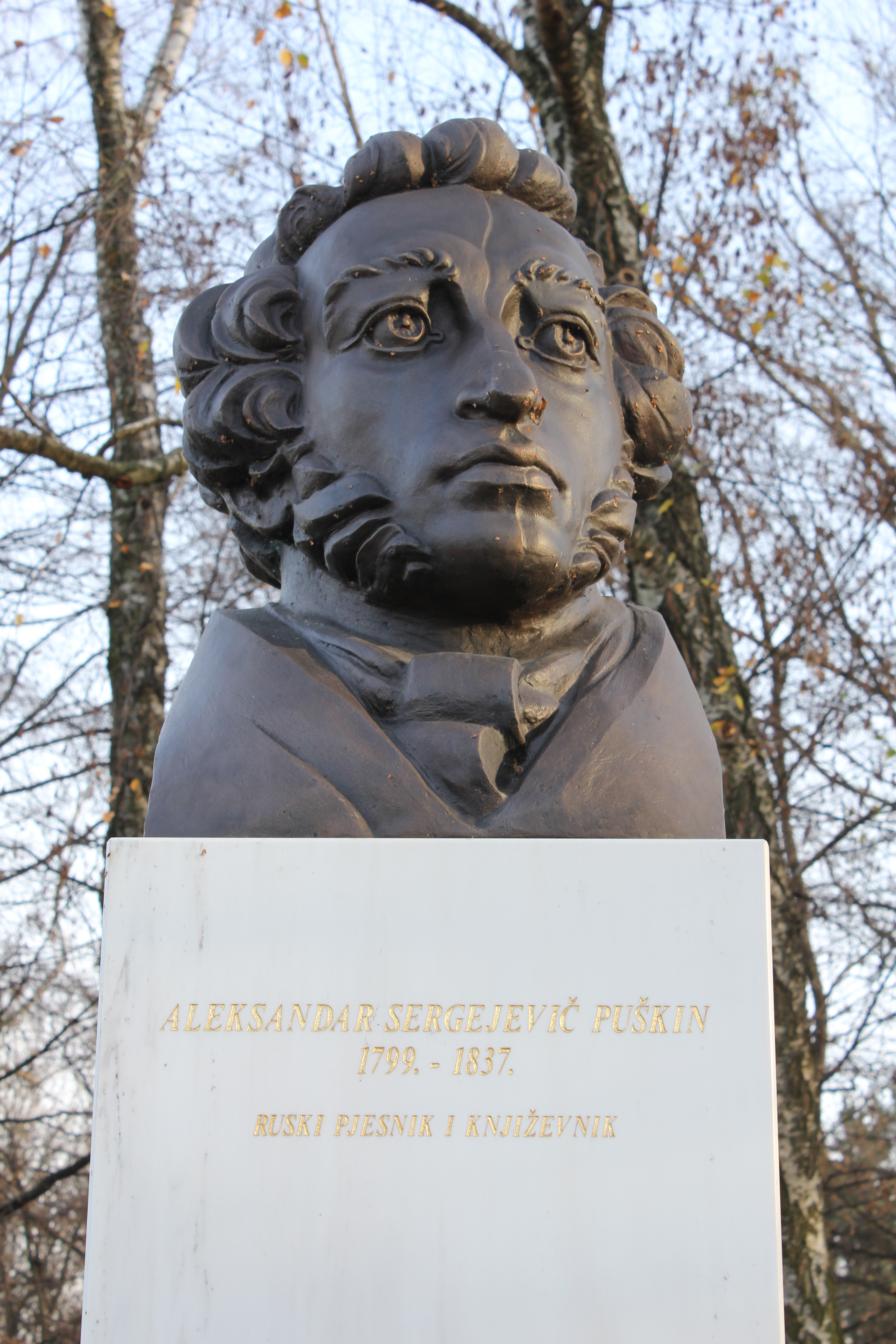 Bust of A.S. Pushkin, park Bundek, Zagreb, Croatia